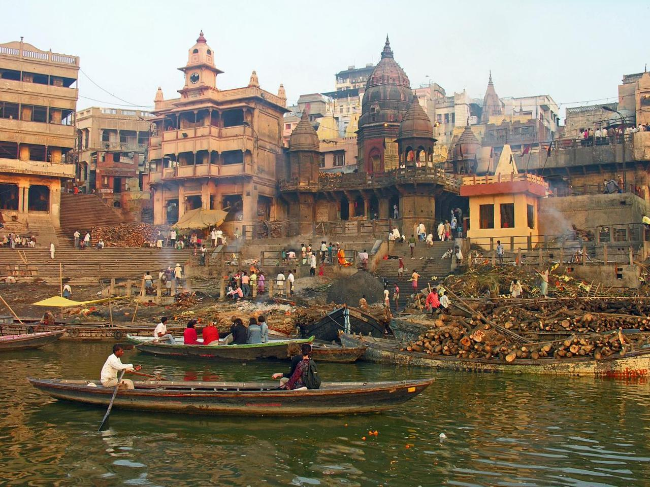 In Varanasi, some 40,000 cremations are performed each year, most on wood pyres that do not completely consume the body. Along with the remains of these traditional funerals, there are thousands more who cannot afford cremation and whose bodies are simply placed into the Ganges. The Manikarnika Cremation Ghat, is the most auspicious place to be cremated in Varanasi. The well at the ghat is called Manikarnika Kund and was built by Lord Vishnu. At each place there is a fire burning (smoke) someone is being cremated, this happen day and night. Cremation takes place shortly after death. The eldest son makes the arrangements (women are not allowed at the site), the body is dipped into the Ganges after it dries, the wood is purchased and arranged and the body placed upon it for burning. In a typical ceremony it takes 600 to 880 pounds of wood burning for 6 hours to complete a cremation and the wood is not cheap.